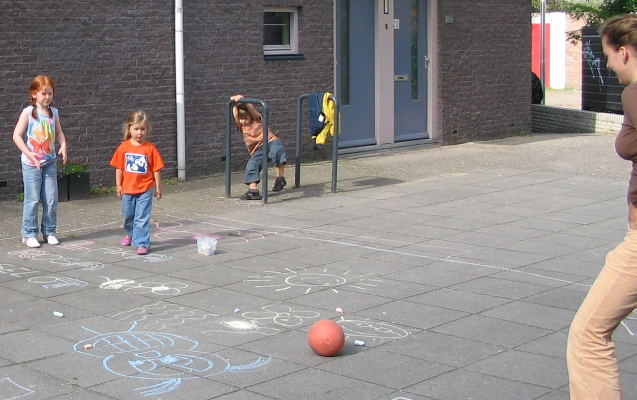 safe and attractive space for children to play on the street